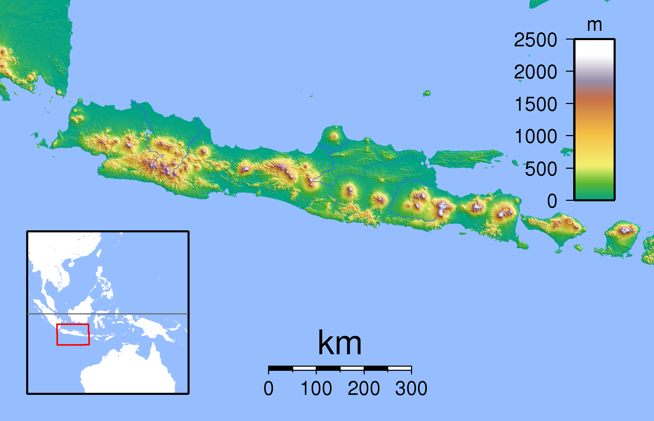 Topographic location map of Java (Indonesia). Created with GMT from SRTM data Left: 104.5, Right: 117.0, Bottom: -12.0666667 Top: -4.0. For non-locator version, see Image:Java Topography.png